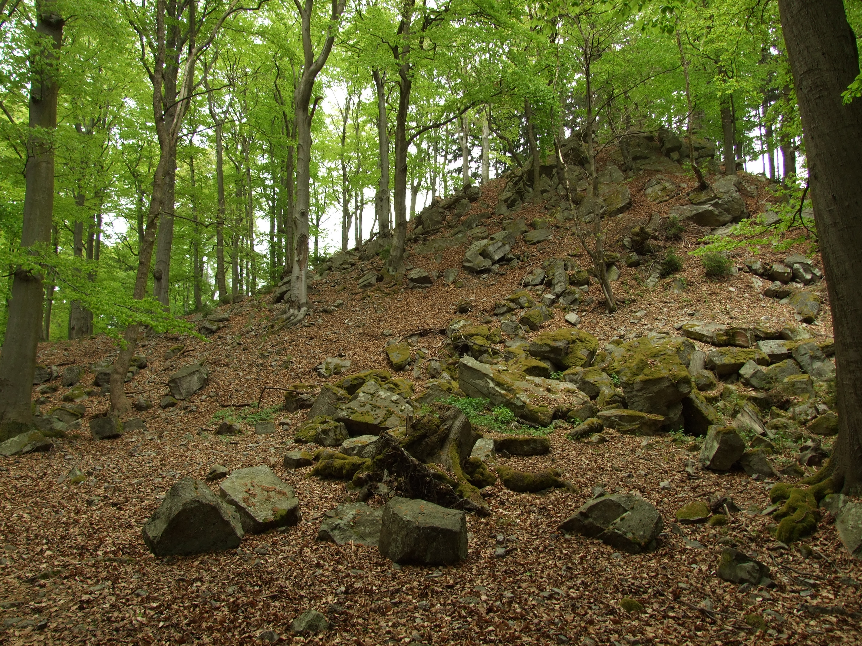 Nature and people in central part of Brdy between Mníšek pod Brdy and Dobříš in Central Bohemian region, CZhelp